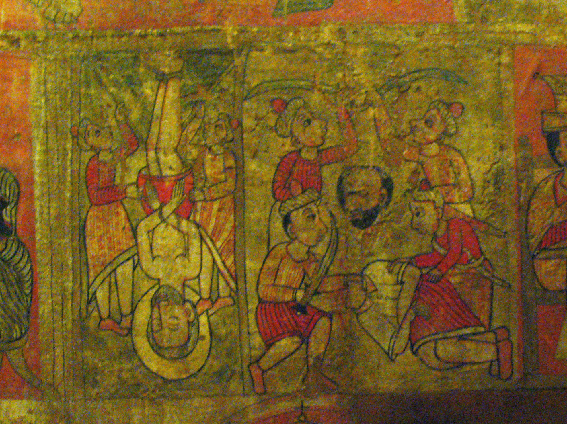 Ethiopian painting (end of 17th century) from the Church of Abbas Antonios, Gondar, Ethiopia; Detail: Hanging from the Feet and Decapitation of a Martyr Musée des Arts Premiers (Musée du quai Branly), Paris; N° inventaire : 71.1931.74.3593